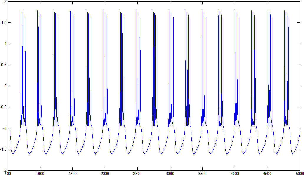 Time-series graph of membrane potential of a neuron according to the Hindmarsh-Rose model. Parameters are: a = 3, b = 5, r = 0.0021, s = 4, xR = -1.6, I = 2.